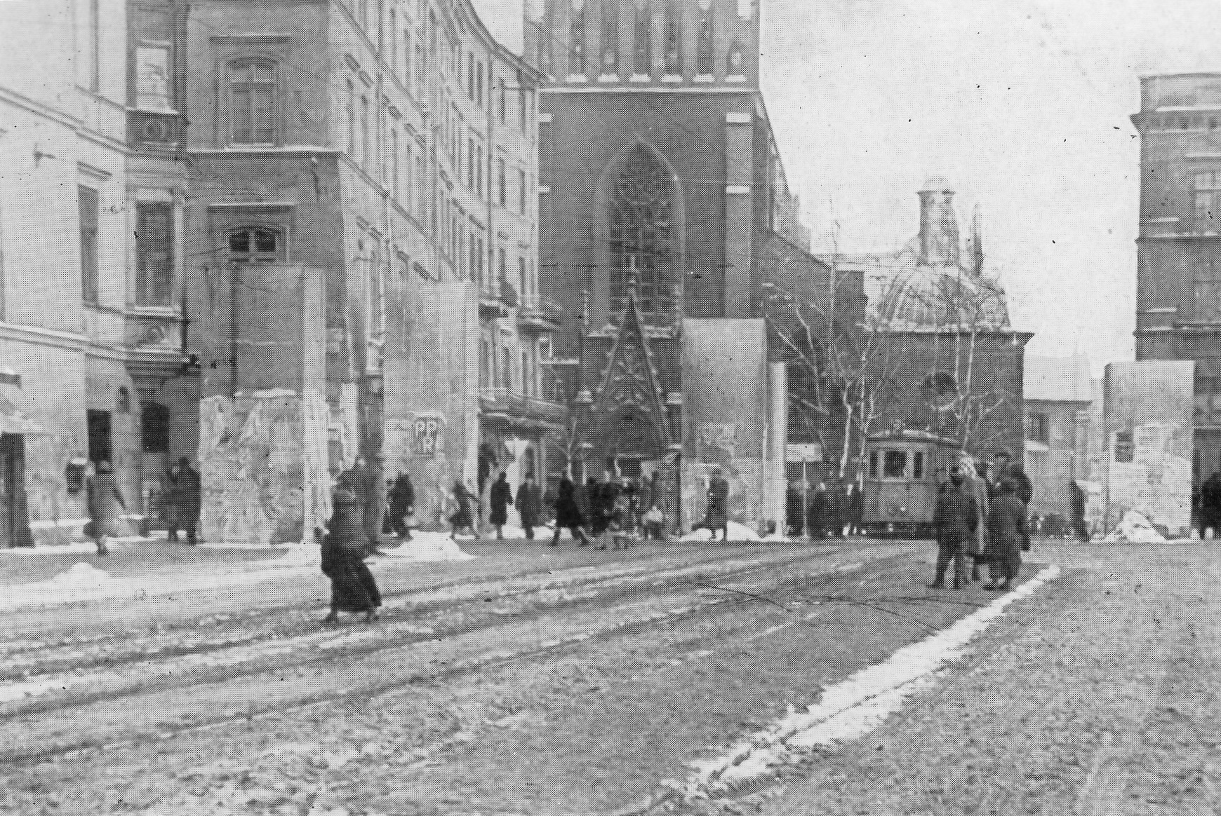 Concrete towers build by Germans during WWII - in the background tram SN1.